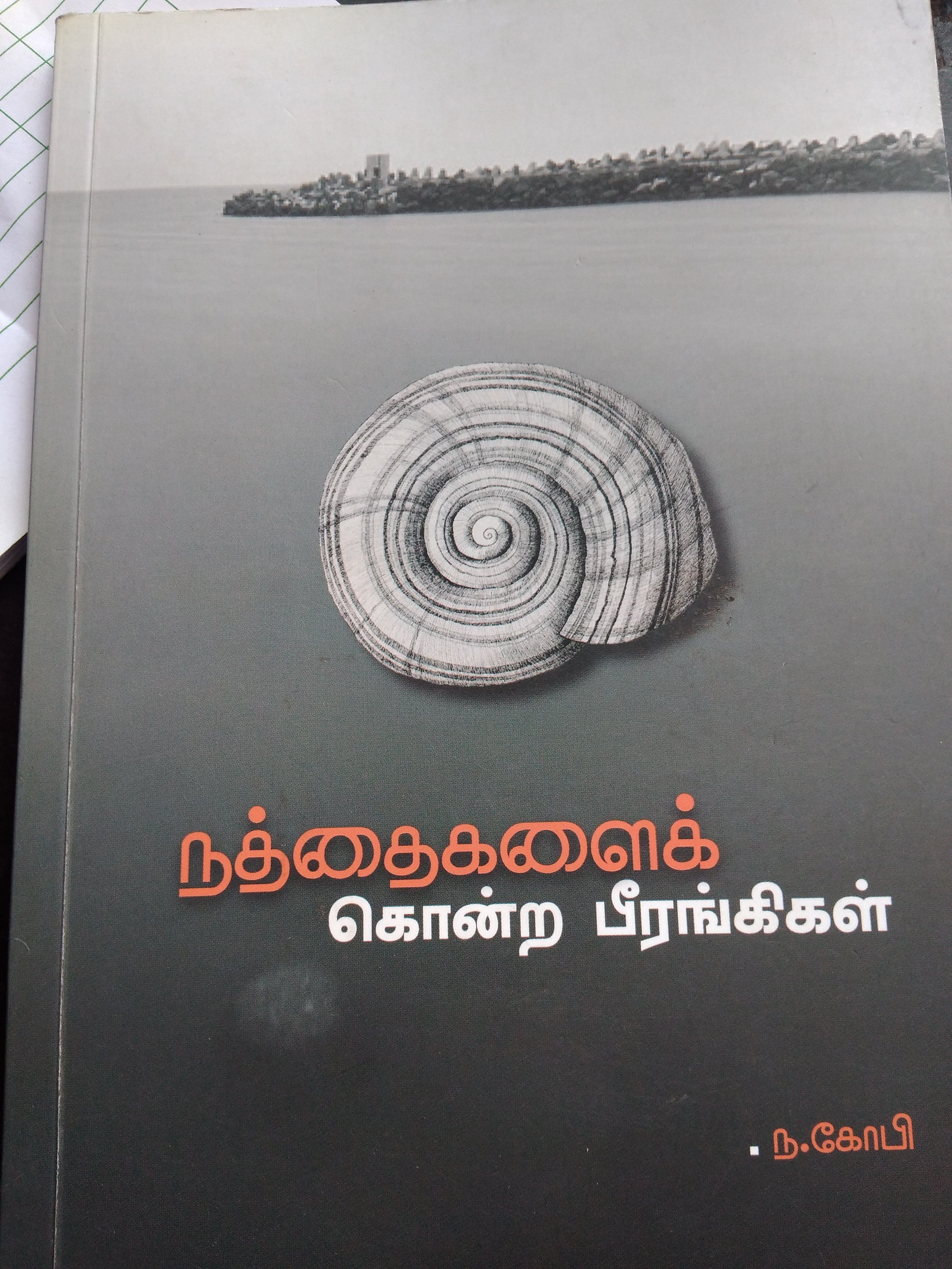 this picture is about a book